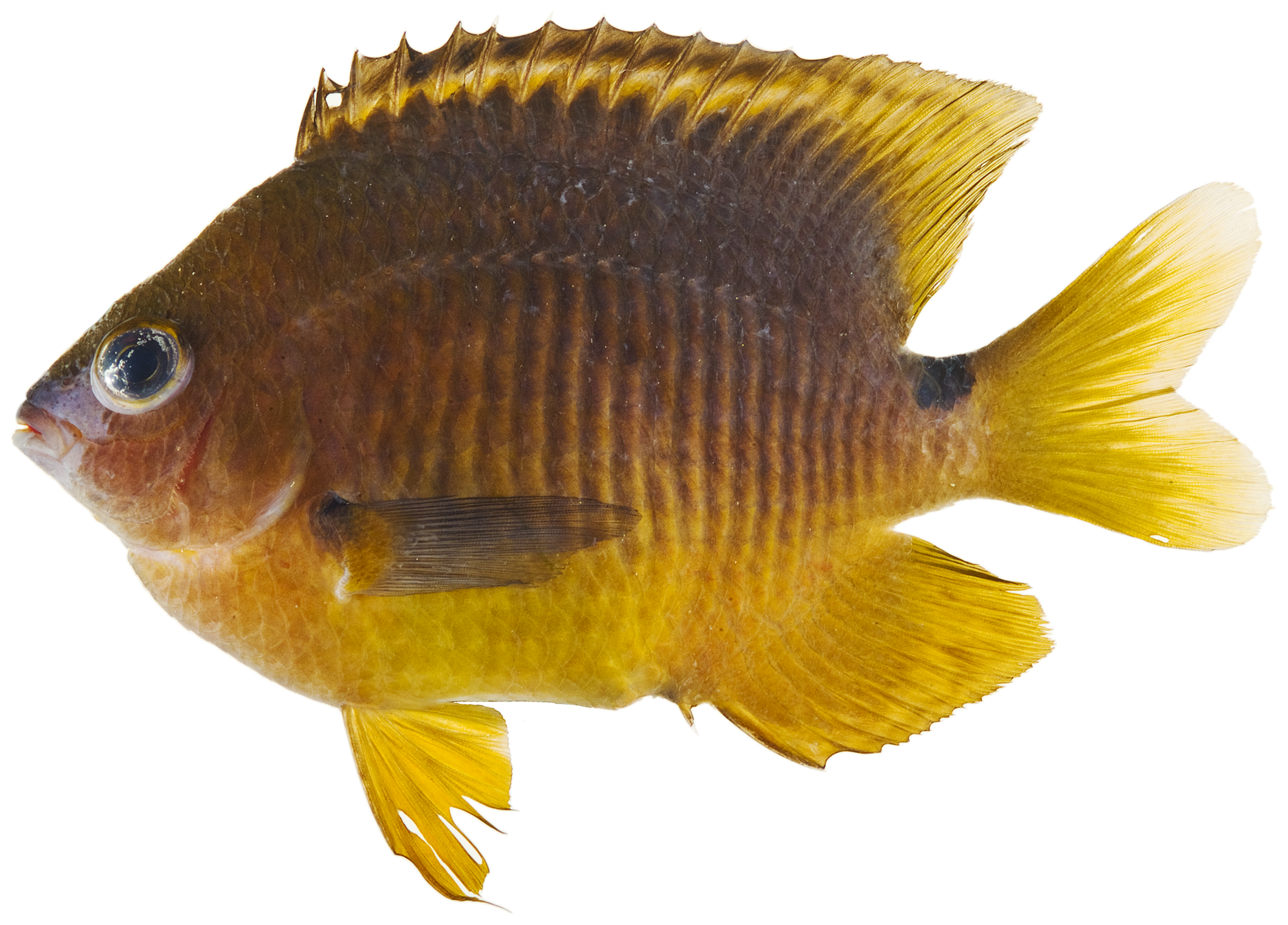 Stegastes planifrons (Cuvier, 1830)—threespot damselfish, 82.7 mm SL. Photo by JT Williams.